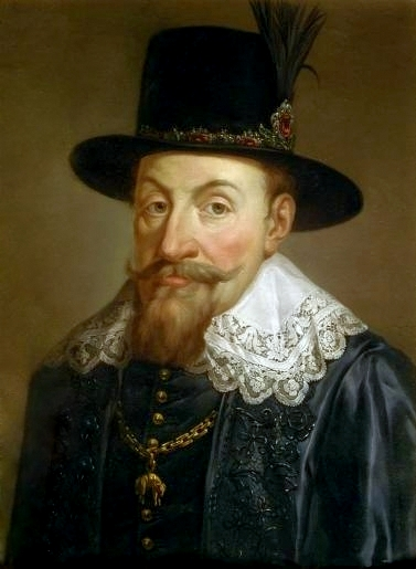 Portrait of Sigismund III Vasa (1566–1632)